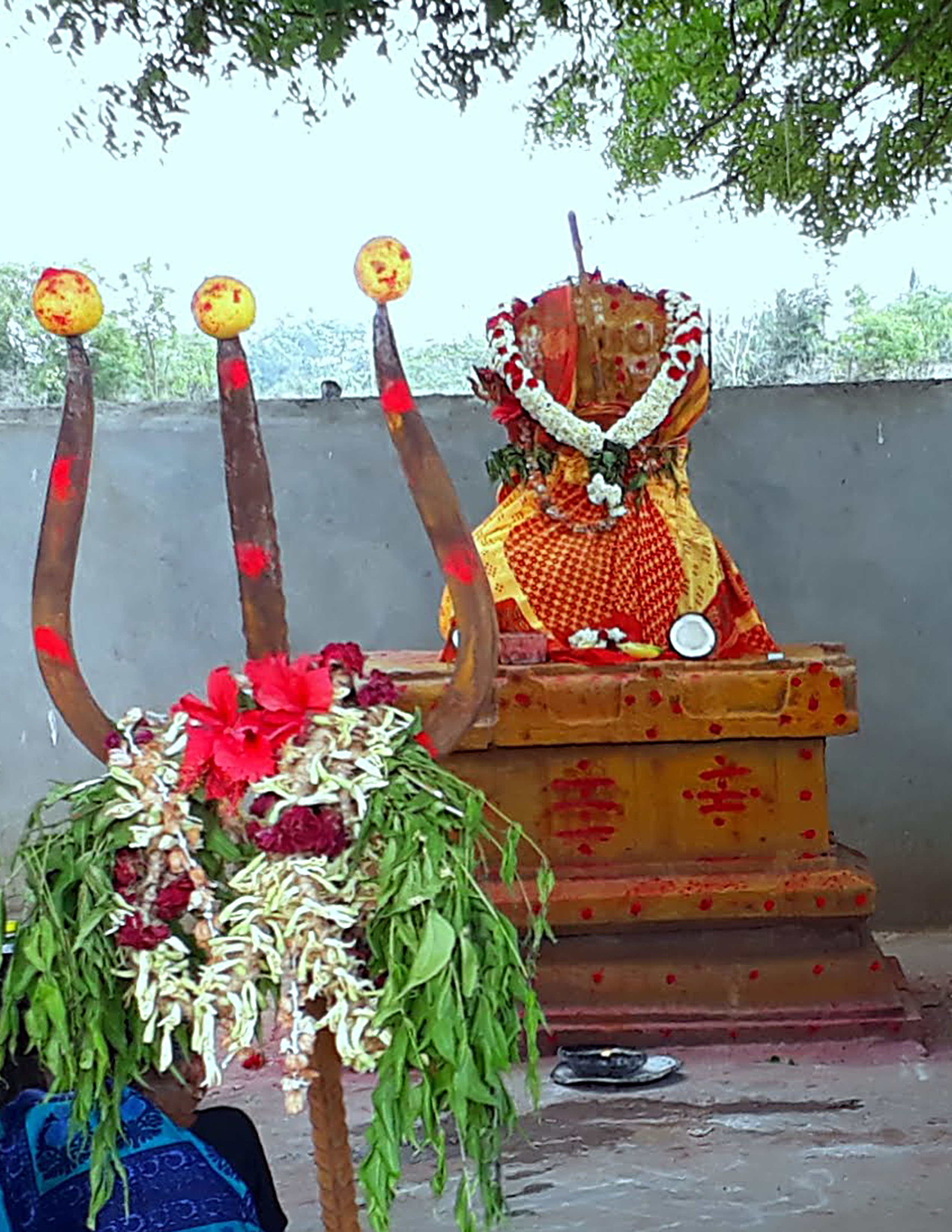 அருள்மிகு ஸ்ரீ பெரியாண்டவர் ஆலயம்